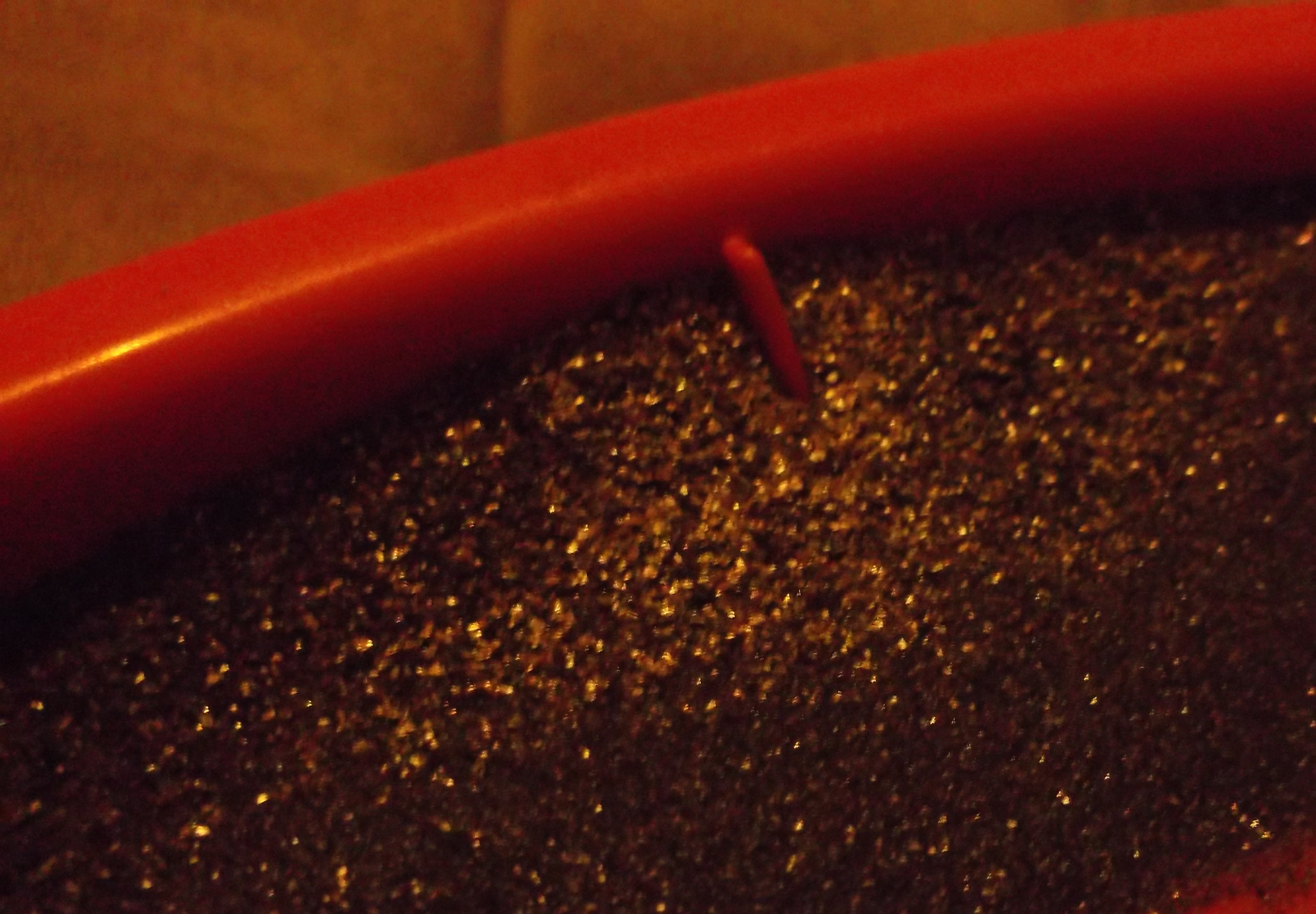 HDPE Sluice Riffle with Black Sand and Gold